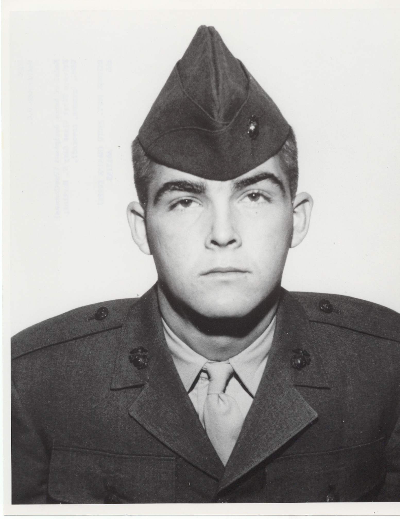 Gary W. Martini, USMC; Medal of Honor recipient; high-res photo from official Marine Corps biography at